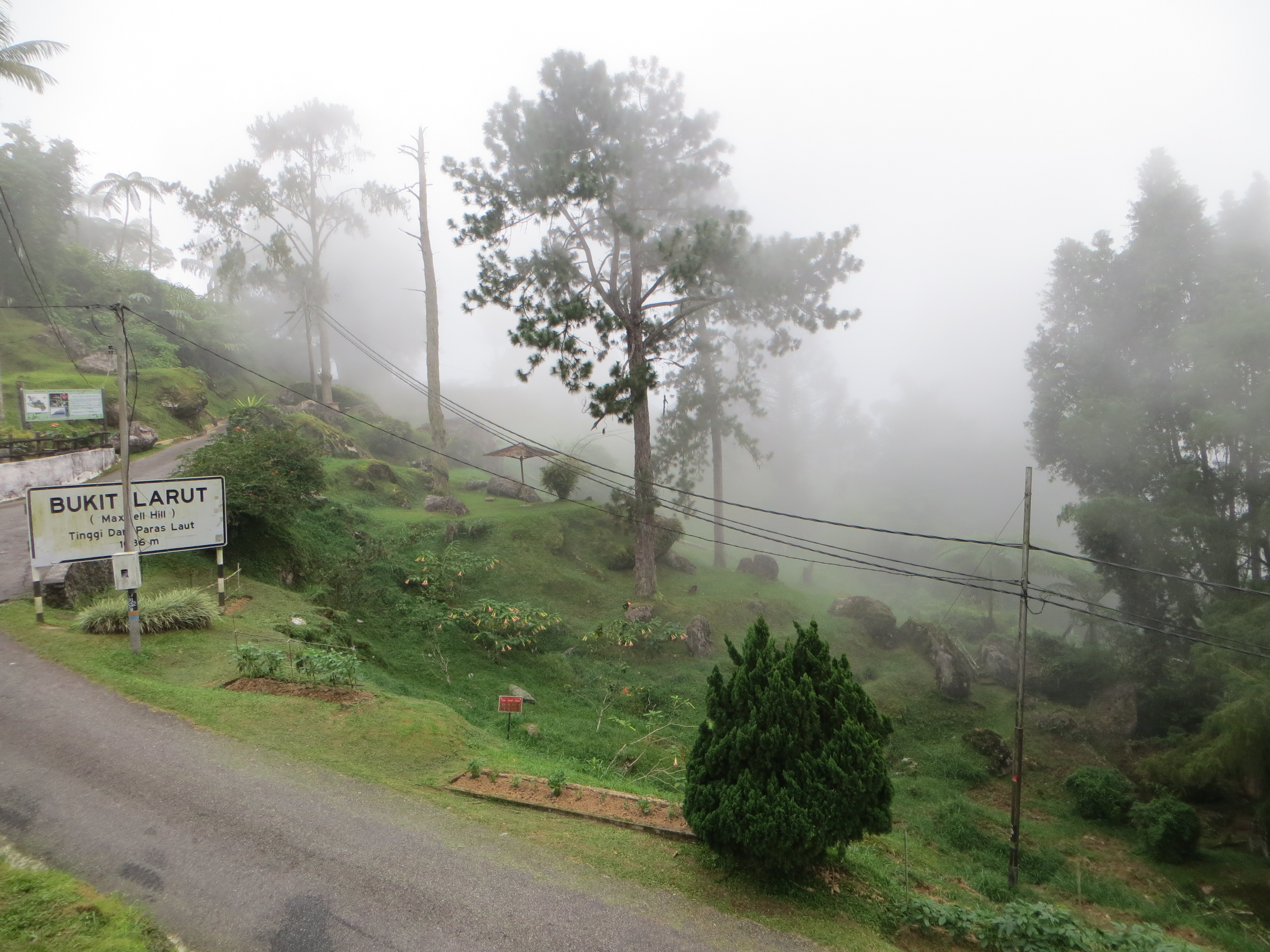 Greenery at Maxwell